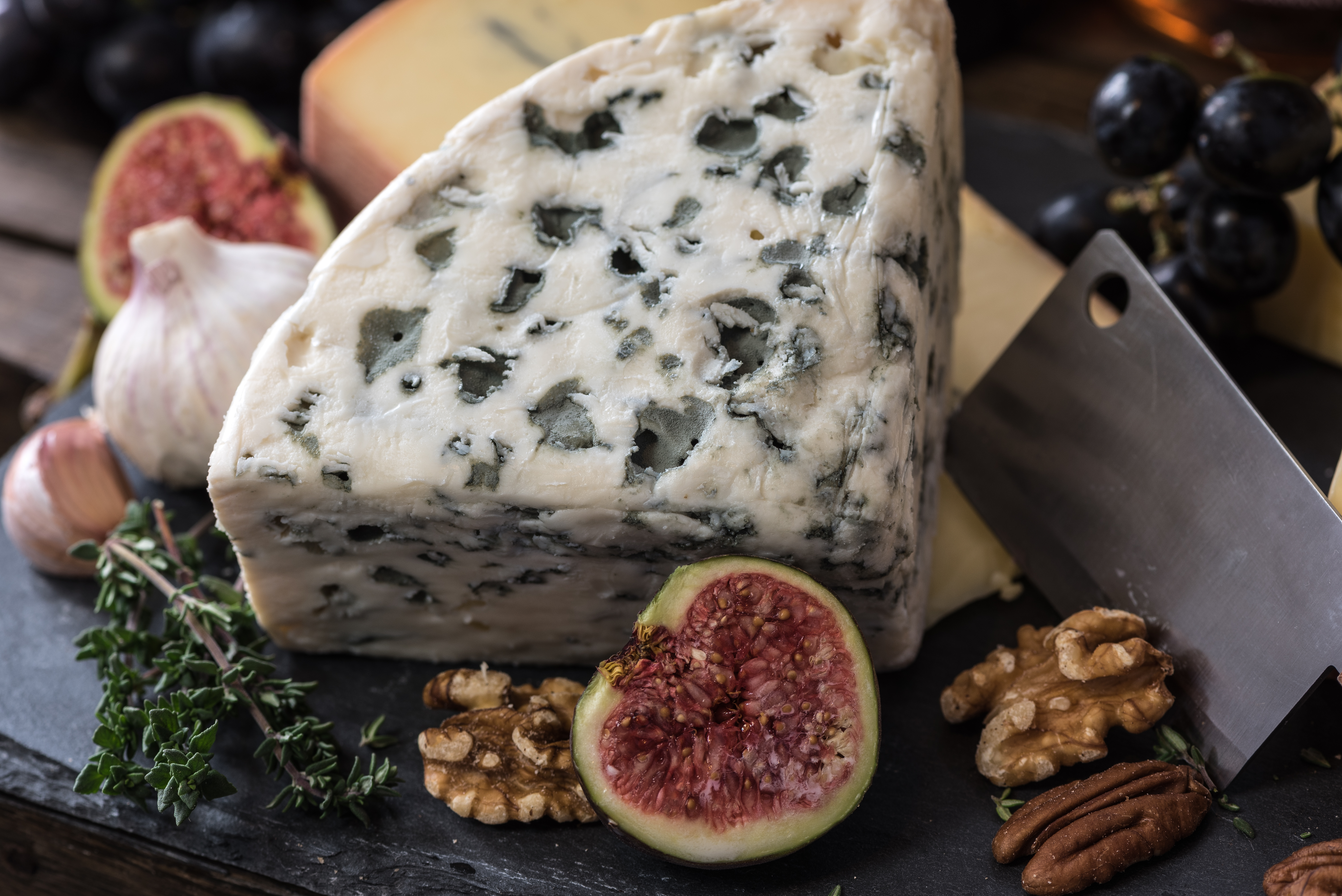 Blue cheese plates with some fruits and decorations in photography stuio